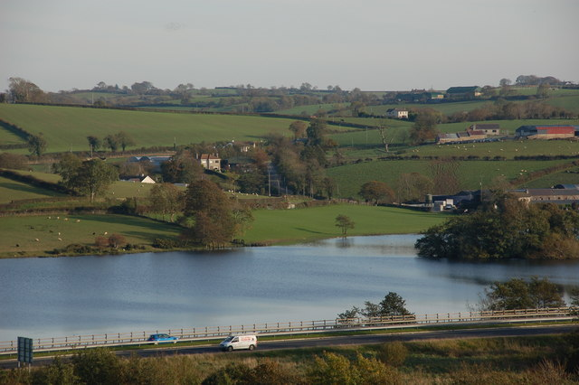 Loughbrickland lake near Banbridge (2) See also 263573. This is the section of the lake in this square seen from the Greenan Road (the road from Poyntzpass). The crannog is on the right and the Belfast-Dublin road runs from left to right in the foreground.